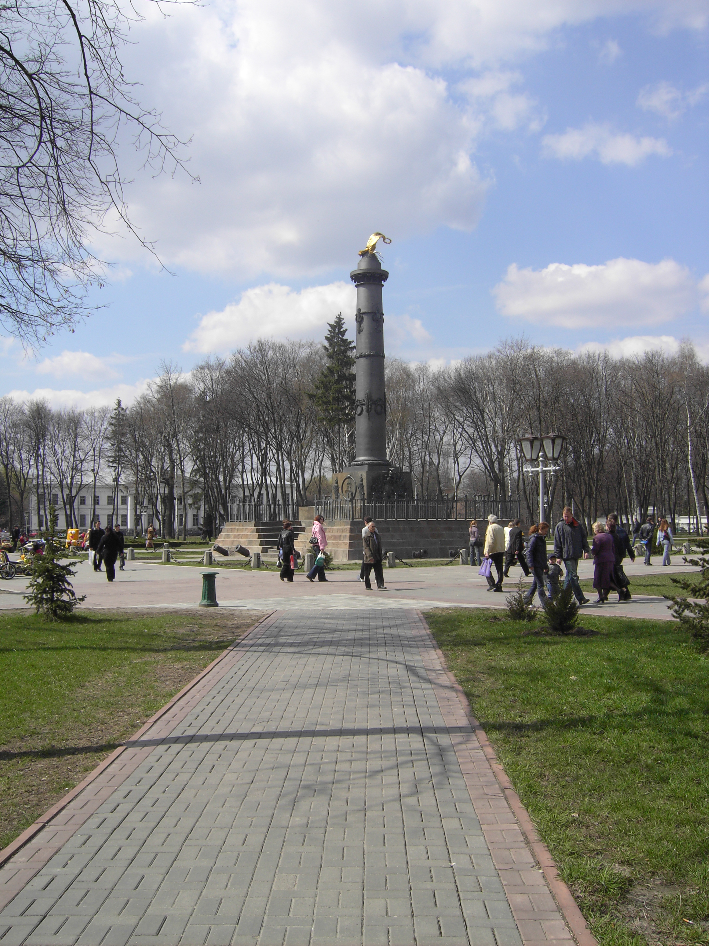 October Parc in Poltava, with the Column of Glory commemorating the centenary of the Battle of Poltava